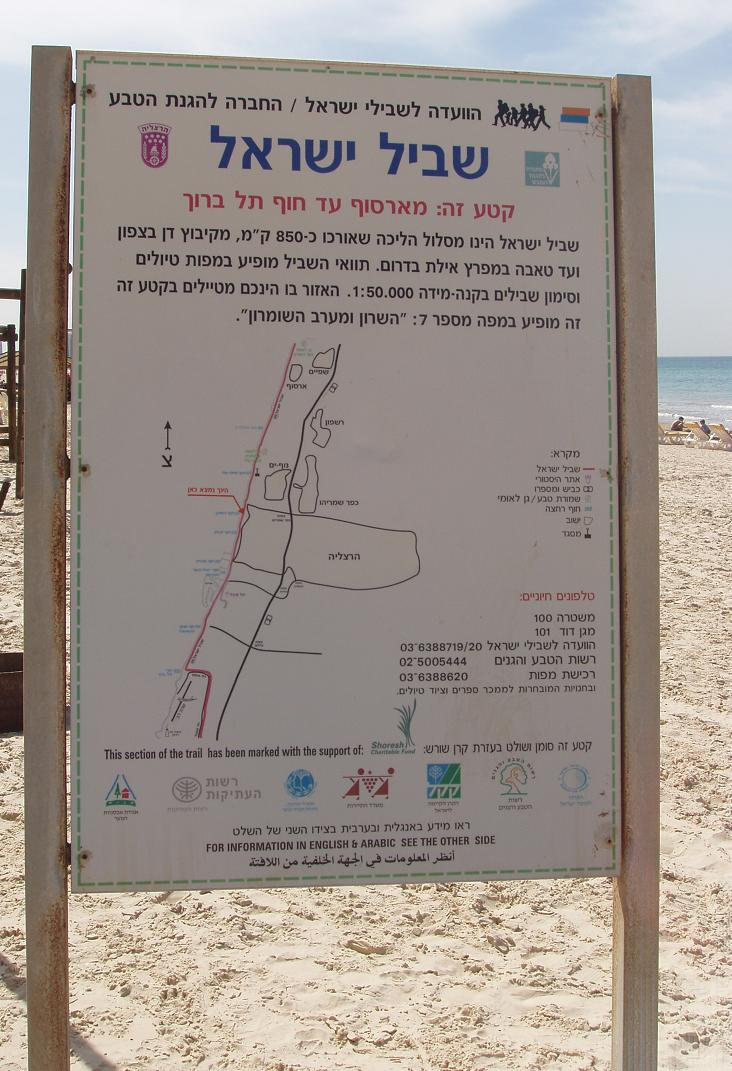 Information board of Israel National Trail™